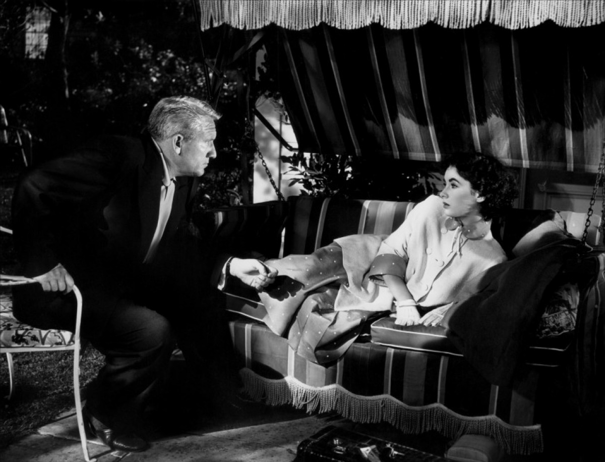 Spencer Tracy & Elizabeth Taylor in Father's Little Dividend - cropped screenshot